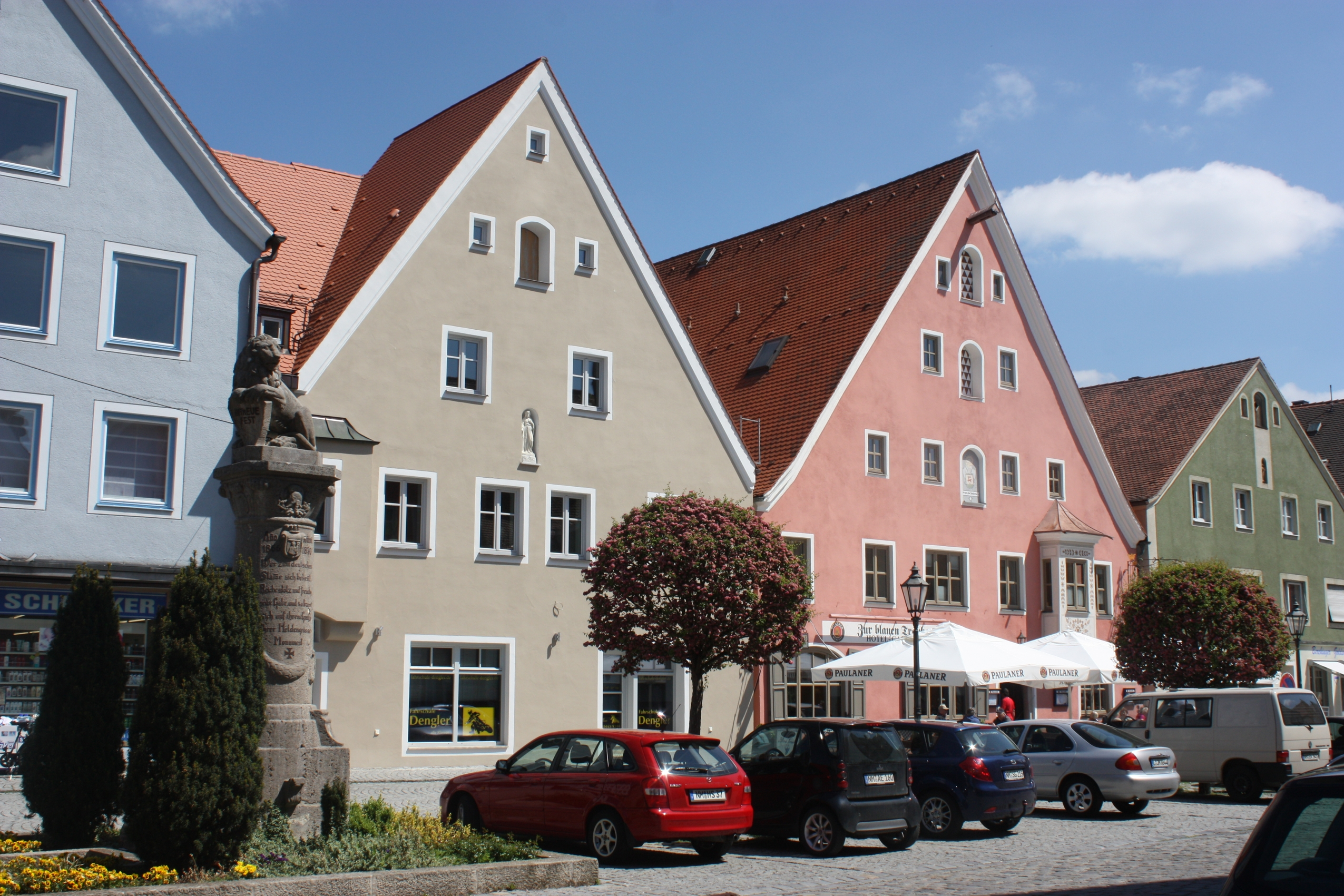 Berching, Giebelhäuser am Pettenkoferplatz mit Kriegerdenkmal This is a photograph of an architectural monument. und 62